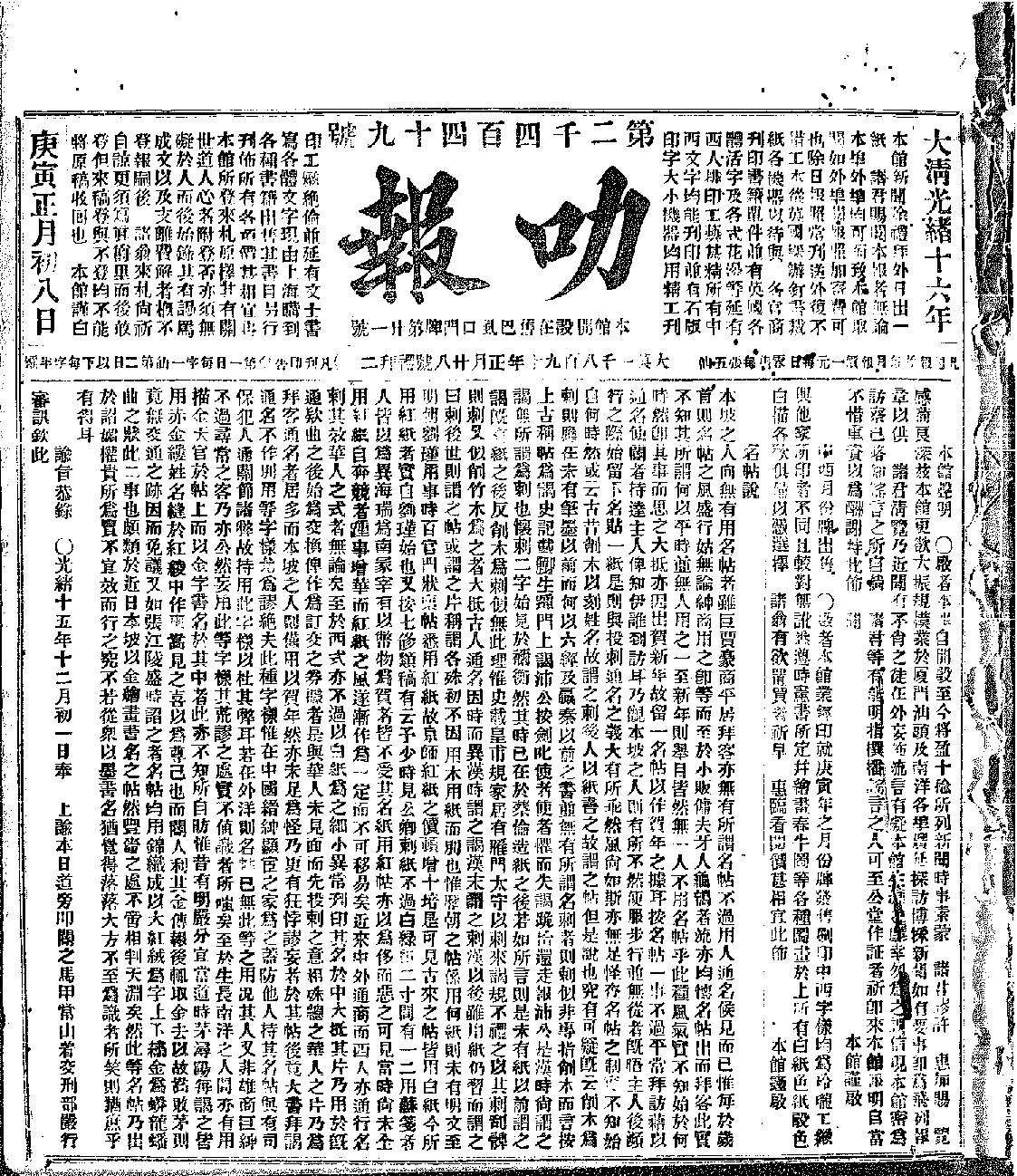 The front page of the Lat Pau newspaper of 28 January 1890. At this time, the newspaper was written in Classical Chinese (文言文 wényán wén). 中文（新加坡）: “叻報”28 Jan, 1890的報紙，使用文言文.